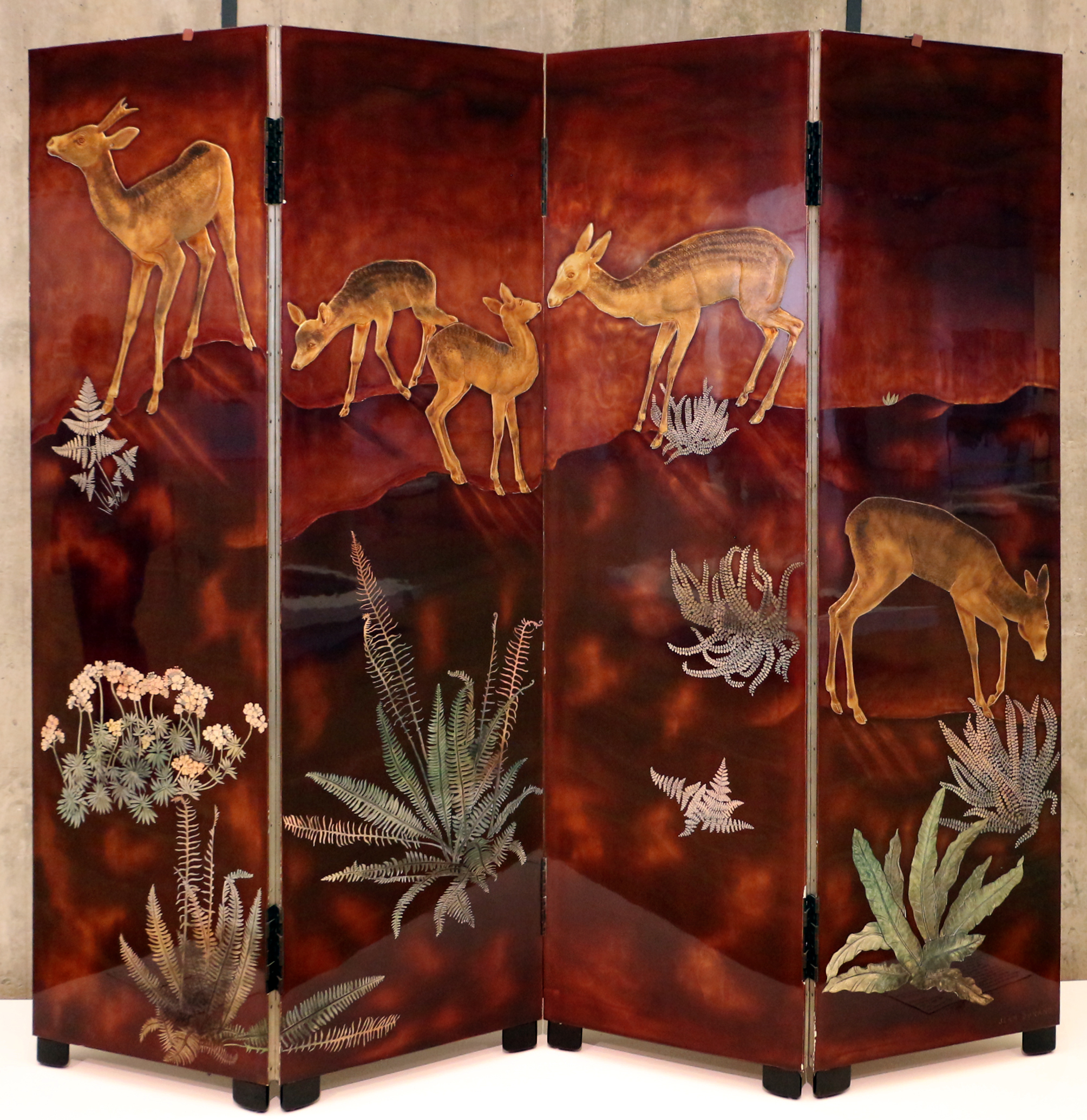 Furniture in the Calouste Gulbenkian Museum